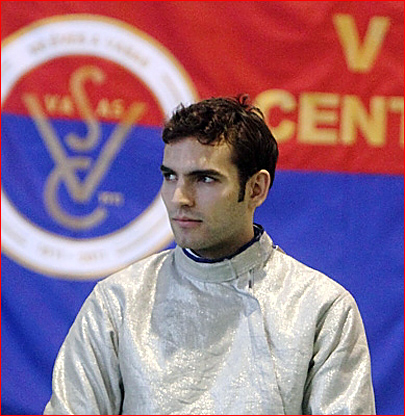 Áron Szilágyi, Hungarian fencer